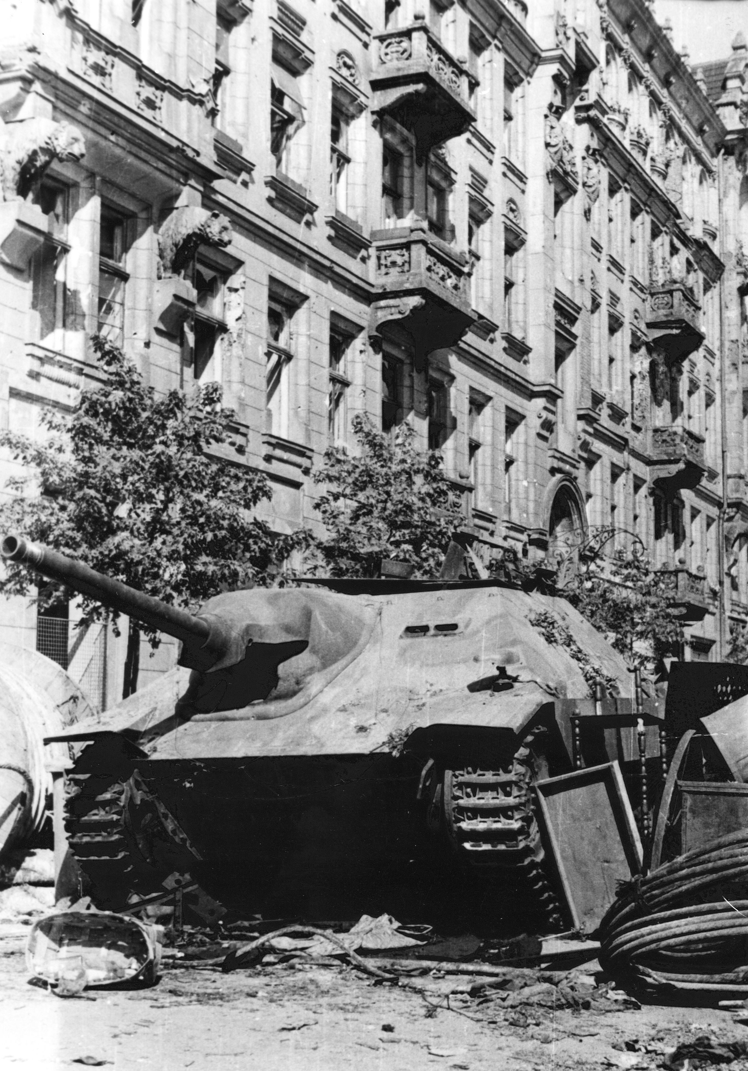 Warsaw Uprising - Polish barricade on the Napoleon square build around German Jagdpanzer 38(t) "Hetzer" tank captured by the Home Army.